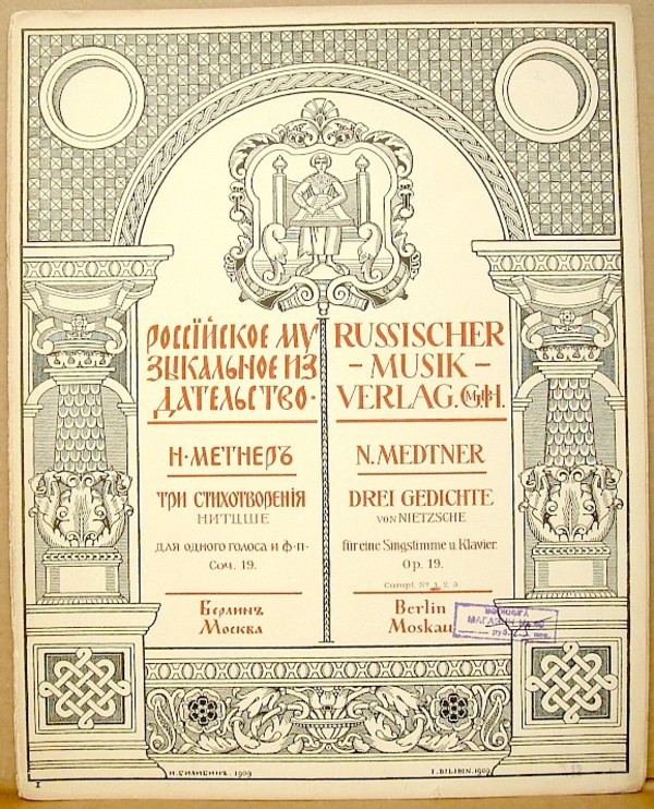 Bilibin, Ivan) Medtner, Nikolai, Friedrich Nietzsche Sheet Music TRI STIKHOTVORENIYA (Op. 19) Berlin/Moscow: RMI, [c. 1909] Music by Nikolay Metner. Poetry by Friedrich Nietzsche. Cover by Jean Bilibine. Folio (13-1/2" x 10-1/2") softcover.